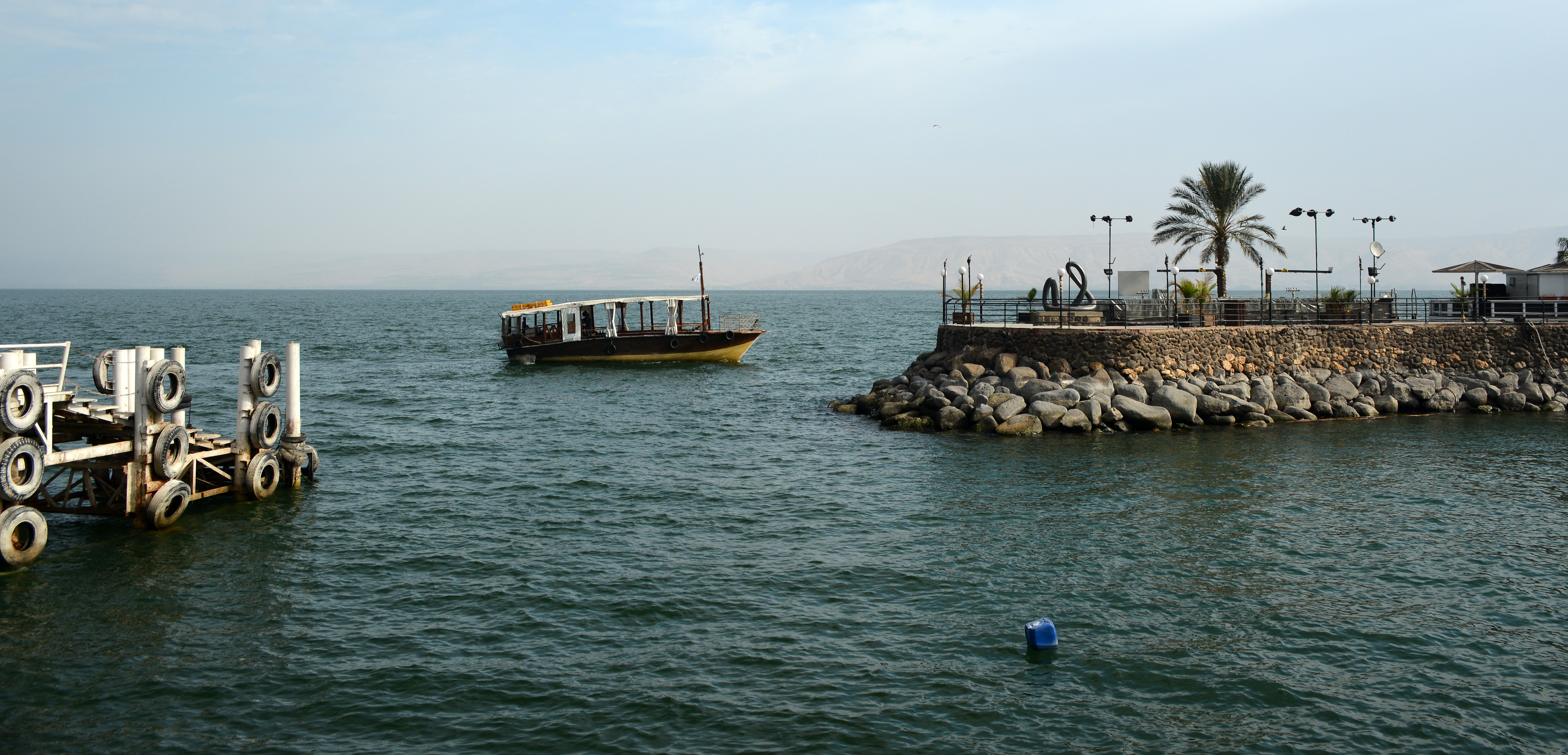 Wooden longboat in the Sea of ​​Galilee, Tiberias, Israel.